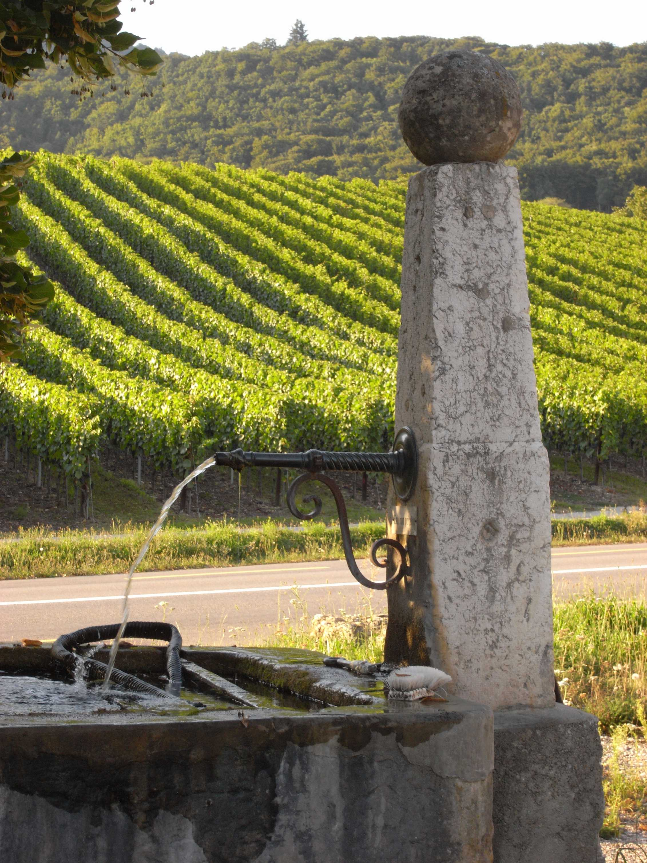 Concise/VD, agricultural fountain (jurassic limestone / Swiss Jura)